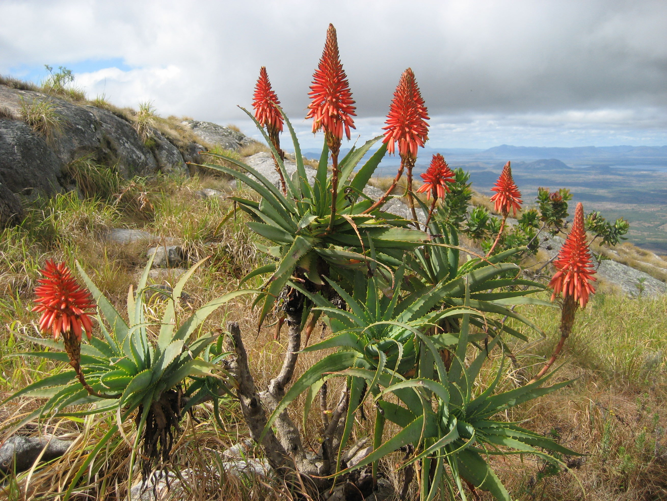 Close to the summit of Mozambican Mount Vumba, about 1500 m.a.s.